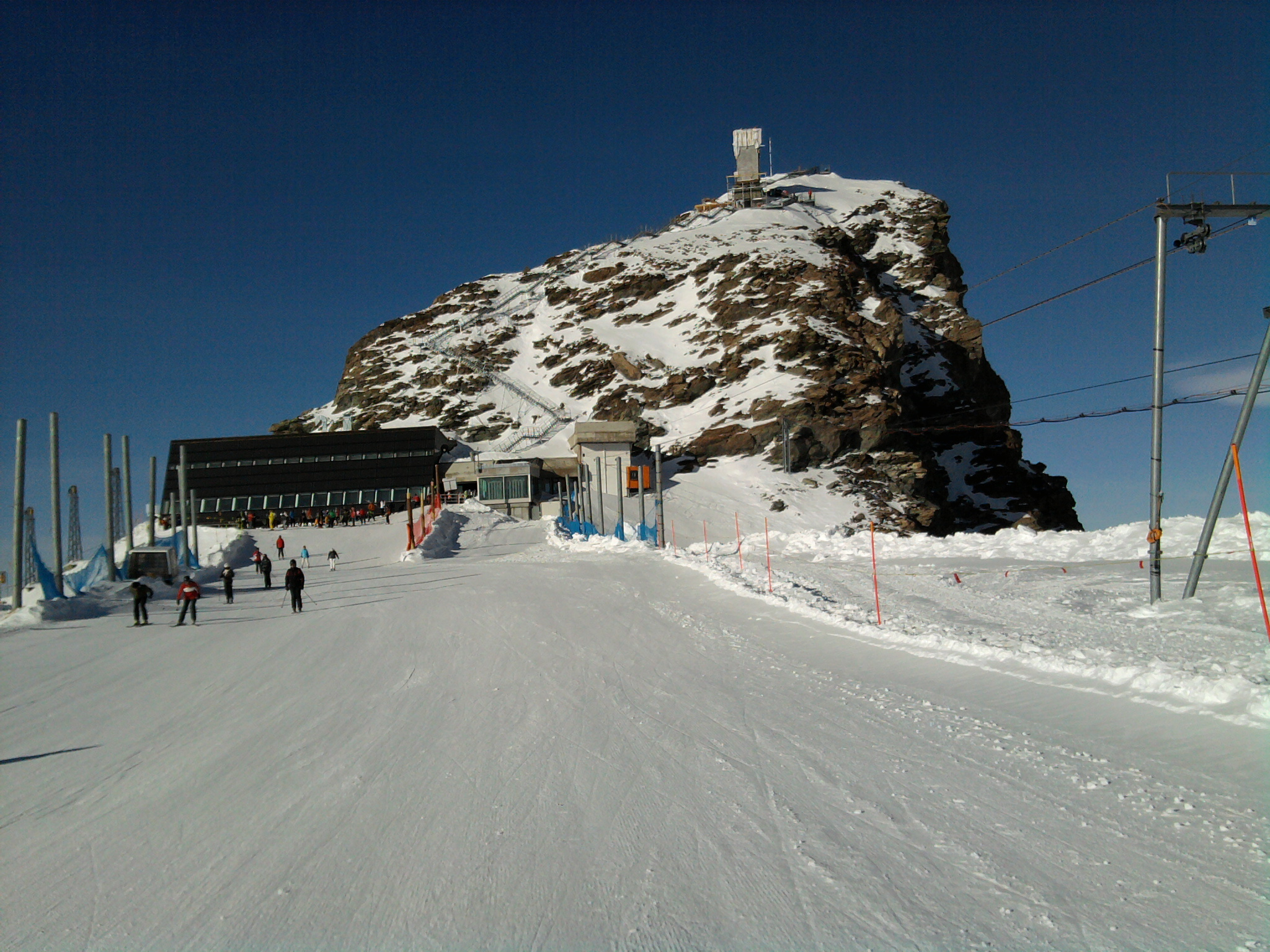 Klein Mattterhorn